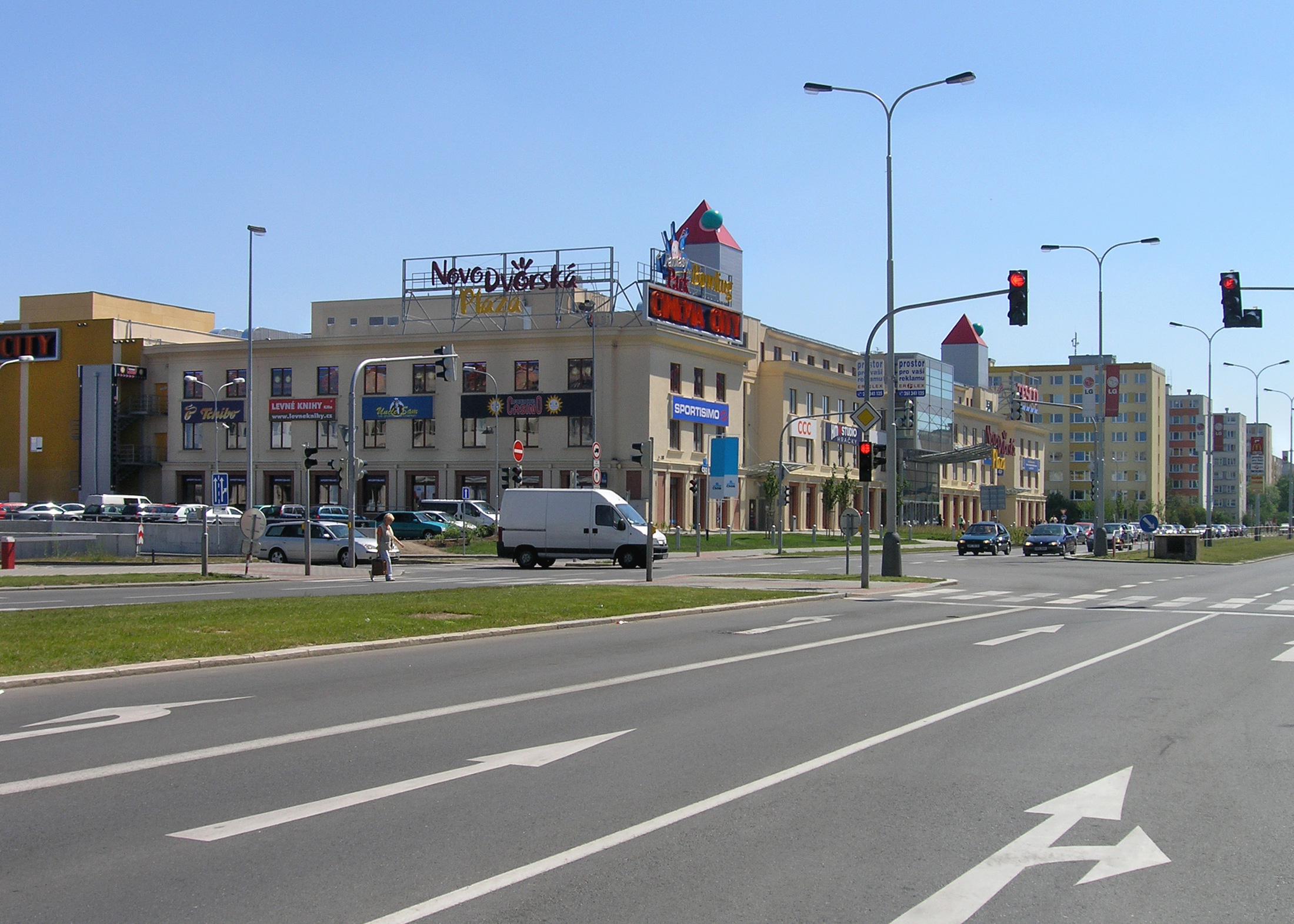 Shopping center Novodvorská Plaza at Novodvorská housing estate, Prague